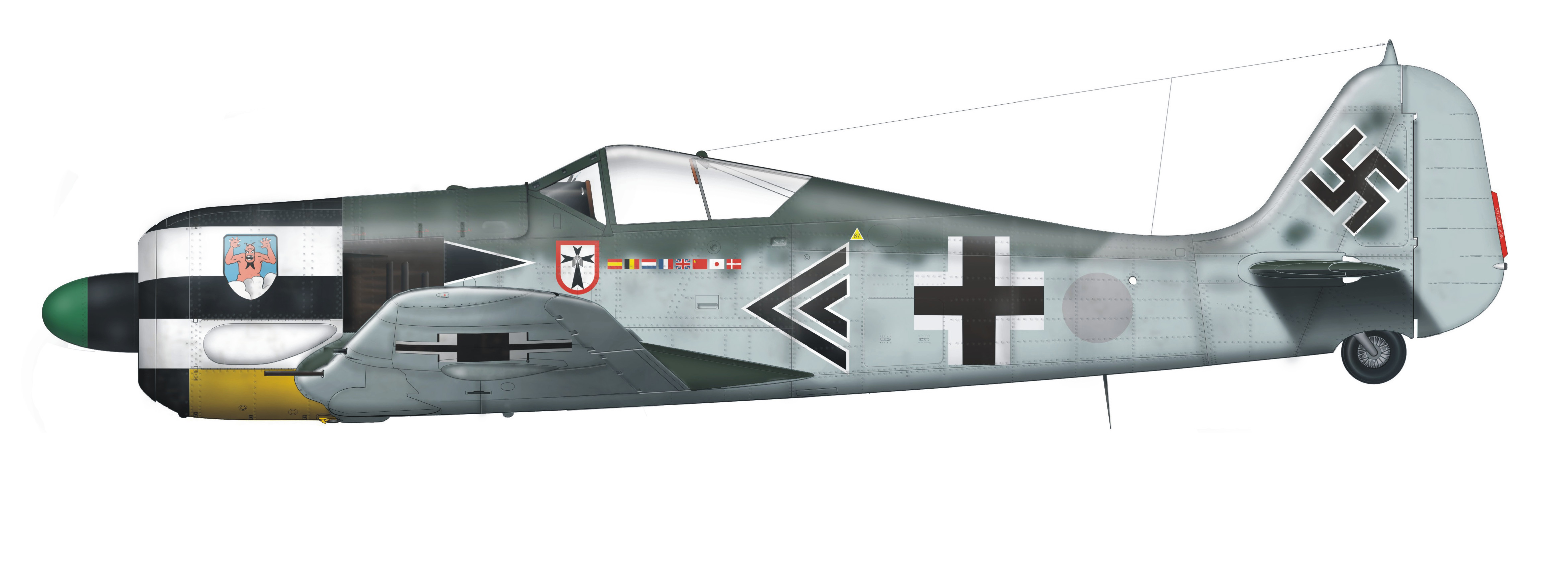 Focke-Wulf Fw 190 A-4, I./JG 1, flown by Hauptmann Fritz Losigkeit